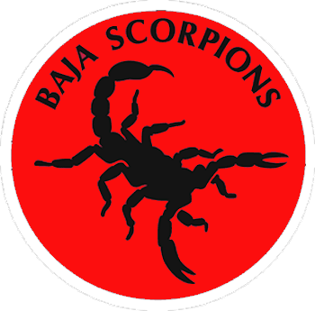 Unofficial emblem of the "Baja Scorpions". F-117 Nighthawk test unit at Groom Lake, Nevada